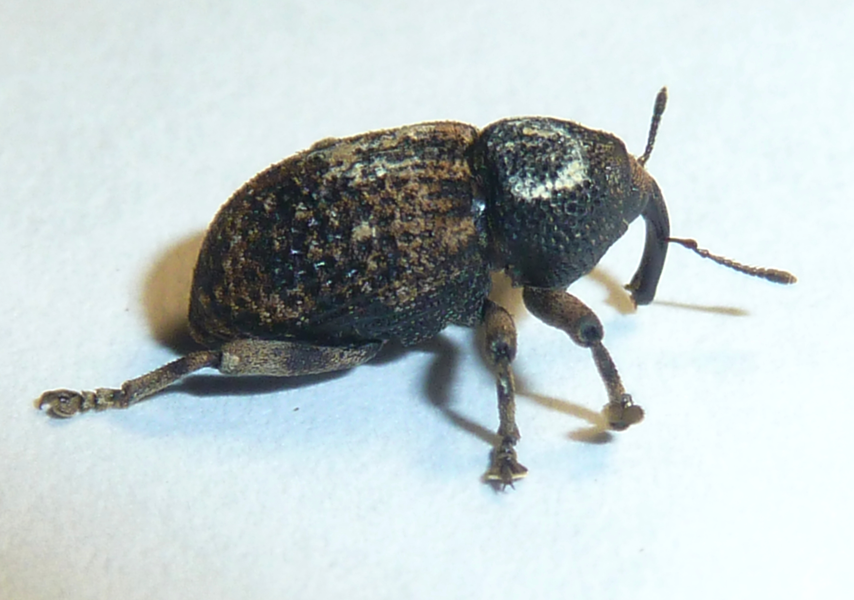 Lesser aloe weevil from suburban Pretoria, South Africa